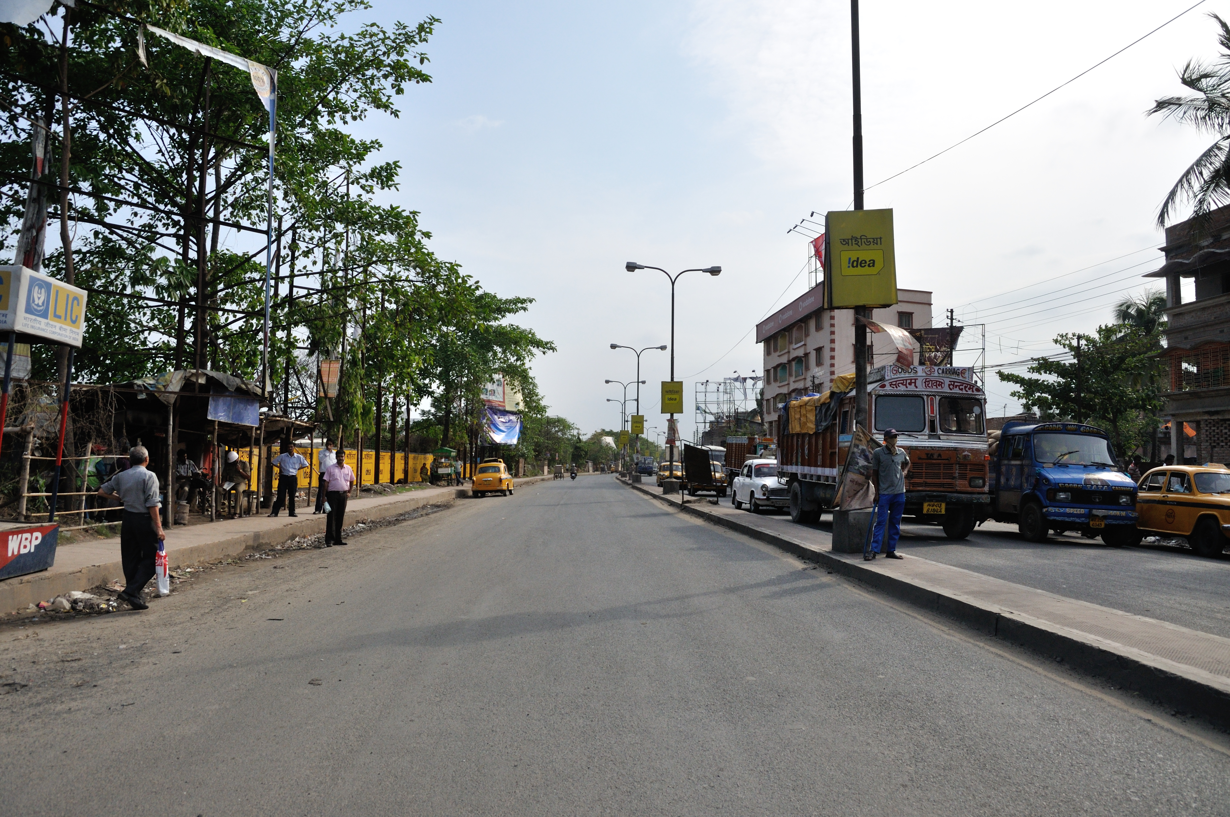 Photographed in West Bengal.